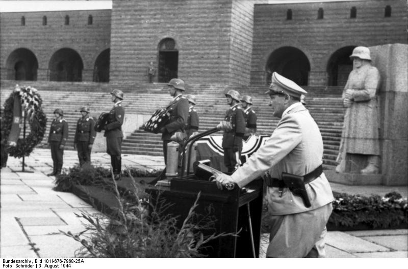 Tannenberg Memorial (not exists anymore), East Prussia (now Poland), General Günther Korten's funeral, 22.07.1944.